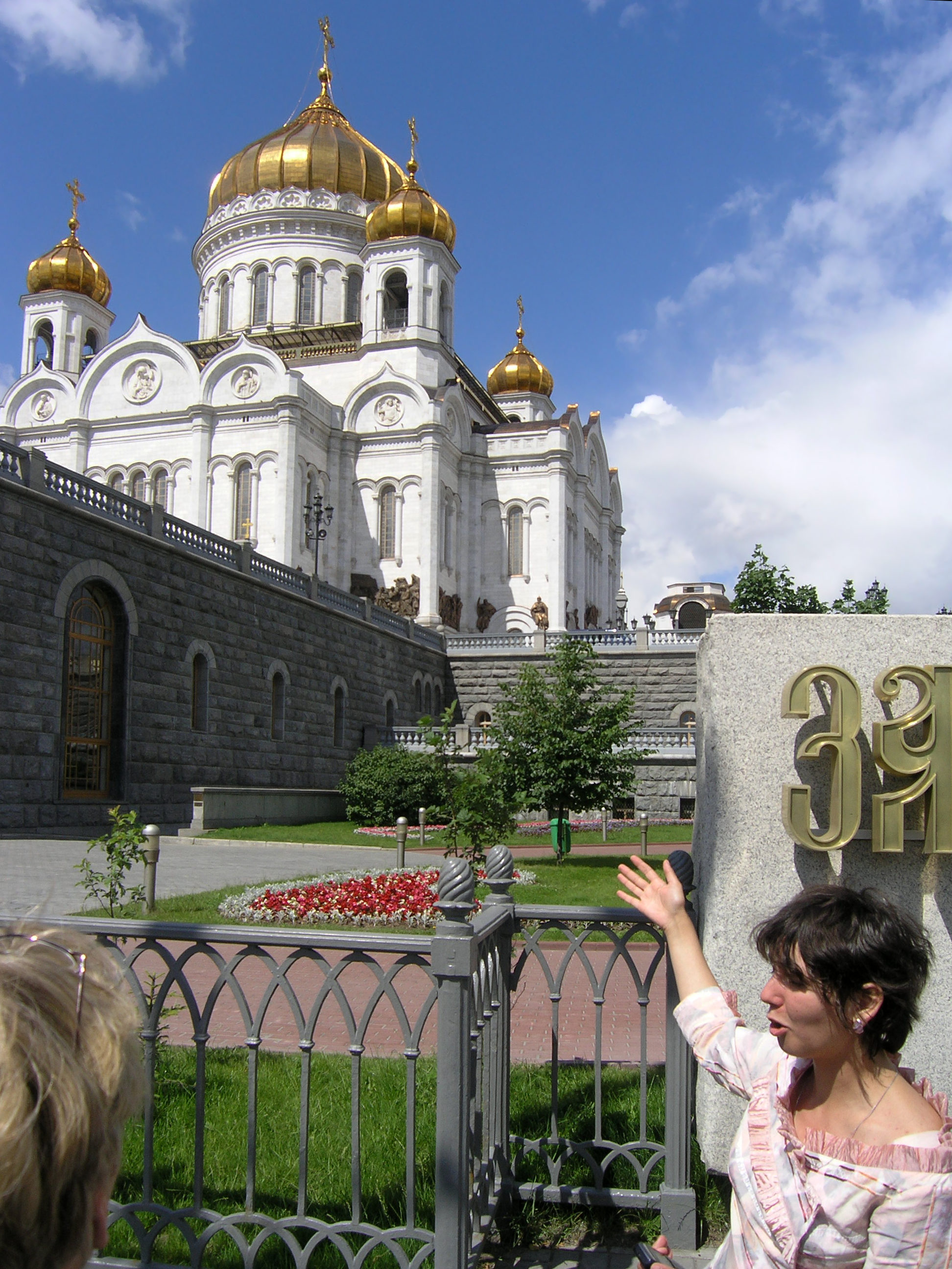 Tour guide in Moscow, in front of Cathedral of Christ the Saviour